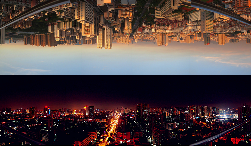 Shenzhen Day and Night, Shenzhen, China